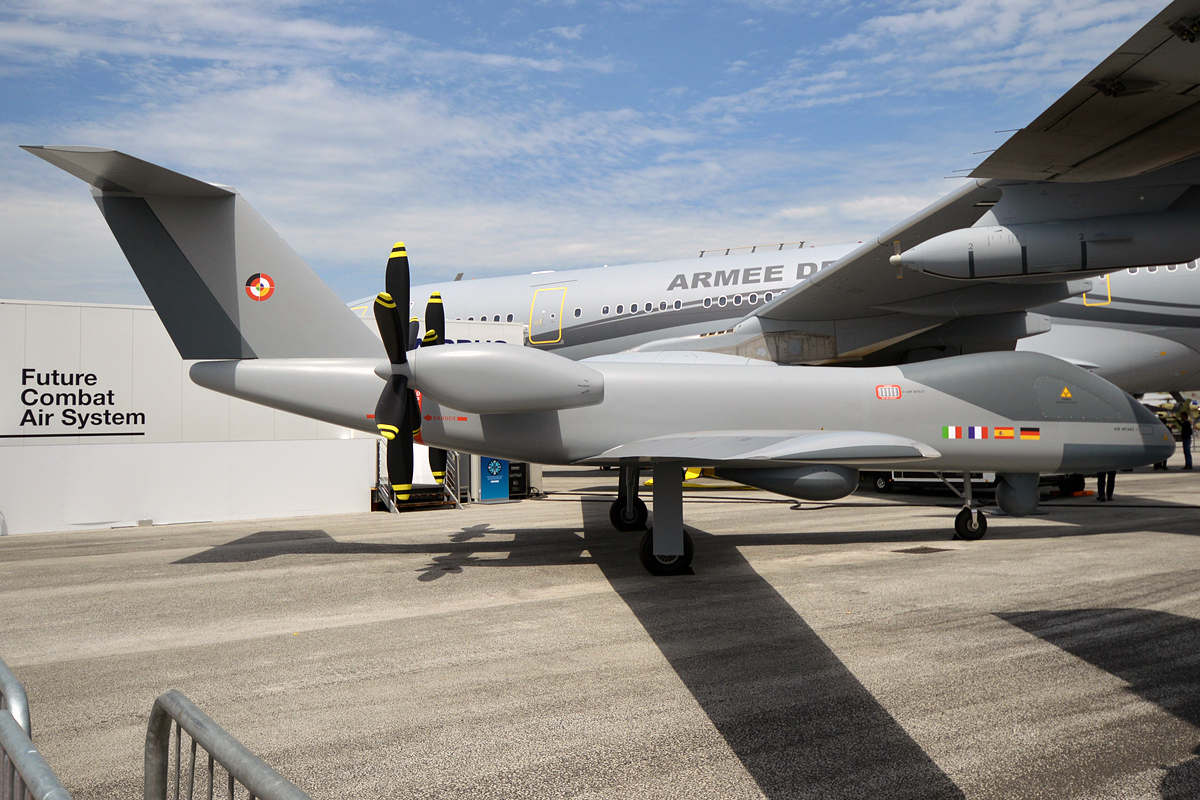 EURODRONE, Airbus, Dassault and Leonardo